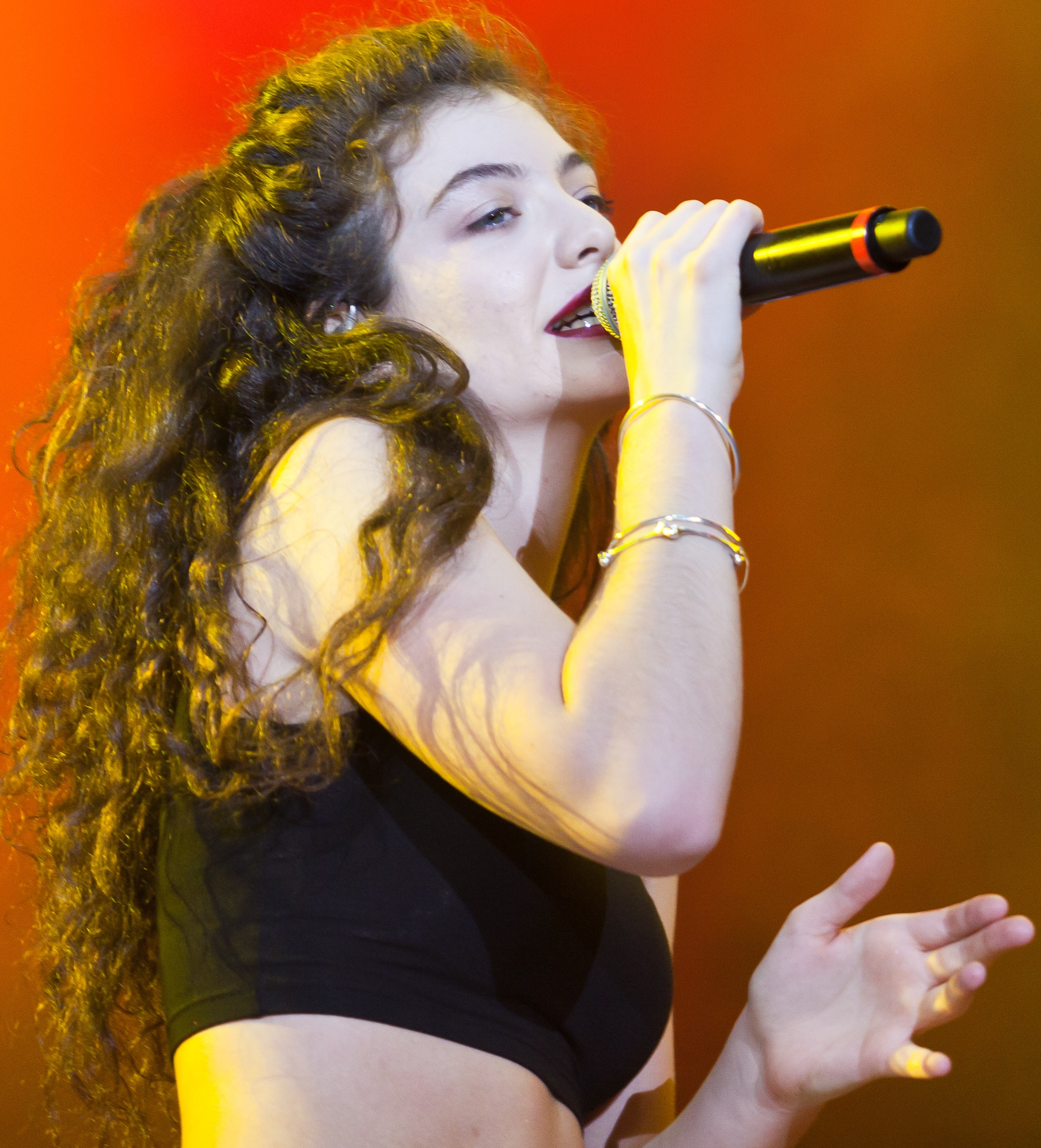 Lorde performing at Lollapalooza in 2014